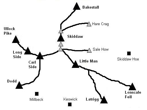 Sketch map of Skiddaw massif, English Lake District